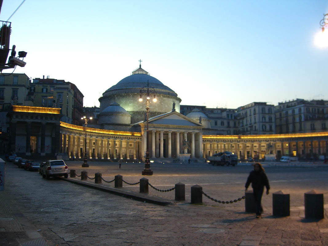 The Piazza del Plebiscito, photographed on the evening December 20, 2007. Photographed by Luigi Novi. This photo is not in the public domain. It may, however, be used, modified and published for any purpose, free of charge, only if the photographer is properly credited, either by linking the photograph to this page, or with an easily visible credit to the photographer placed near the photo in each instance in which it is used. (See licensing information below.) Publication of this photo without this proper attribution constitutes copyright infringement. If you have any questions, you can contact me on my Wikipedia Talk Page.